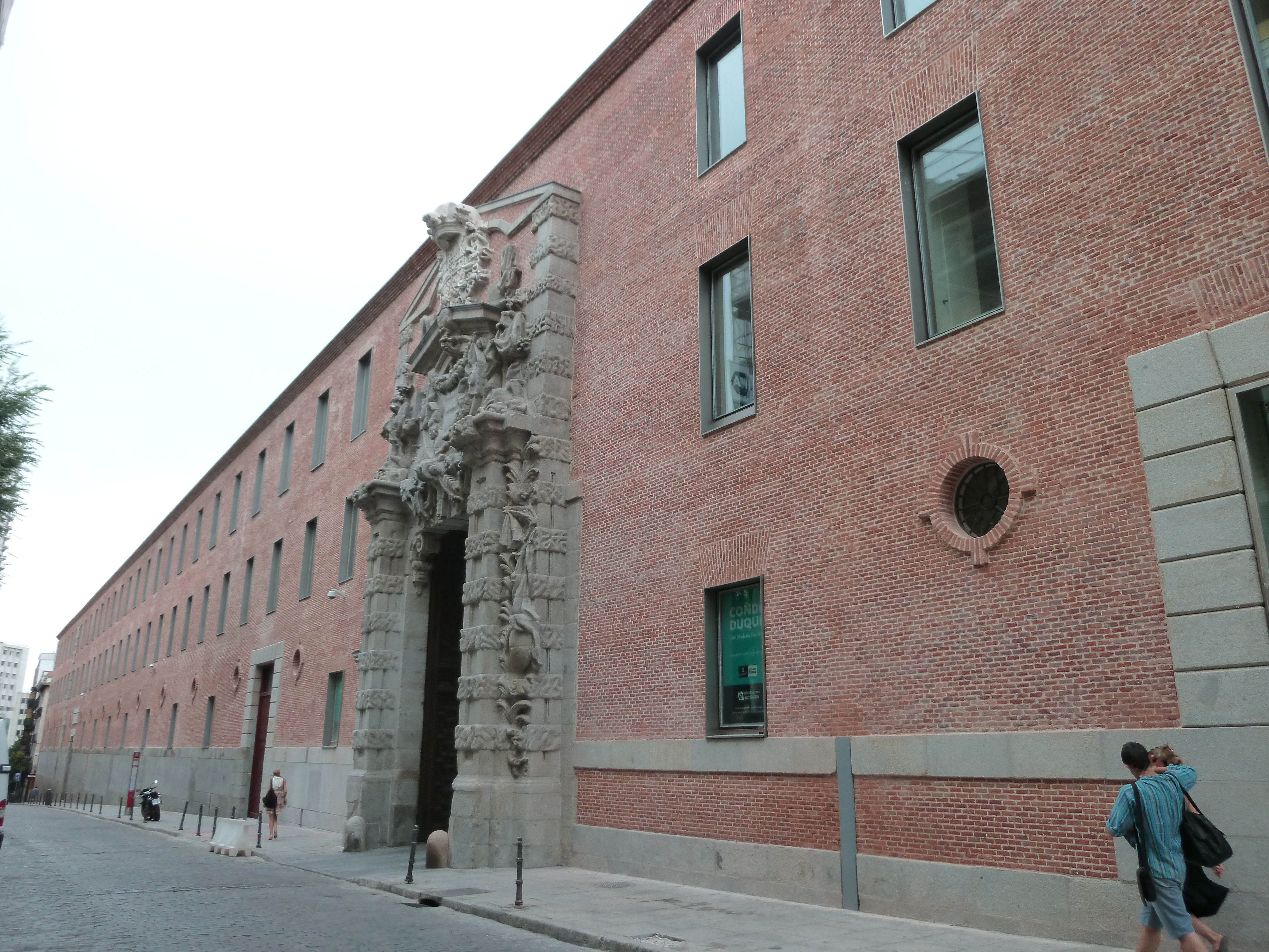 South-east façade of Cuartel del Conde-Duque in Madrid (Spain).